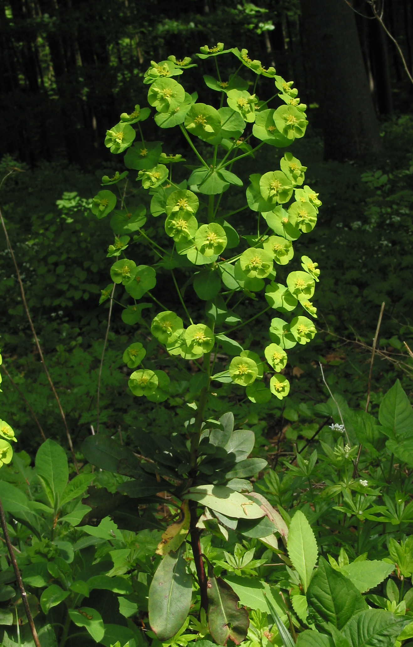 Wood spurge (Euphorbia amygdaloides), forest above Gruibingen, Germany